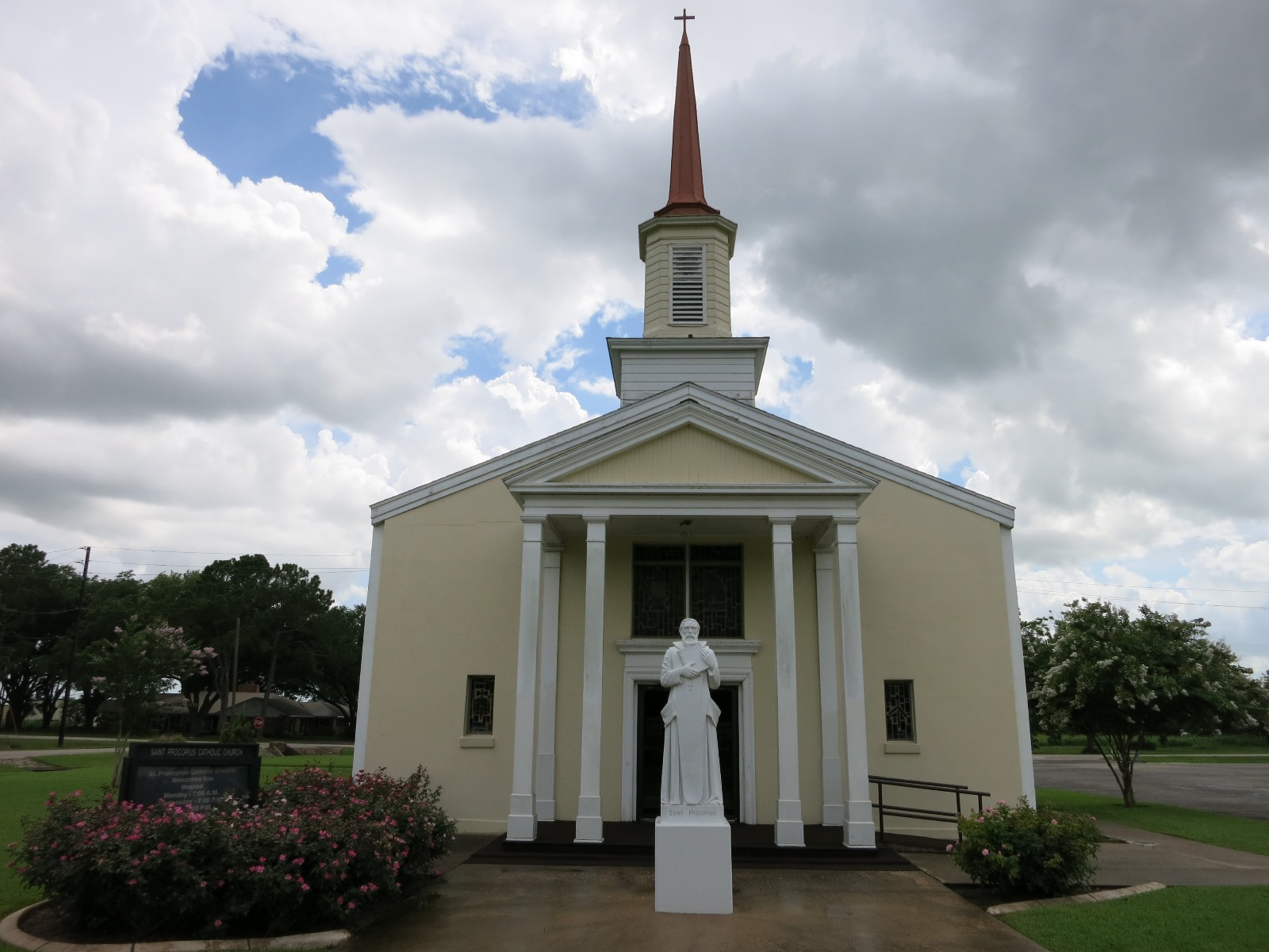 Photo shows Saint Procopius Catholic Church at Elm and 3rd Streets in Louise, Texas. View is to the southwest.